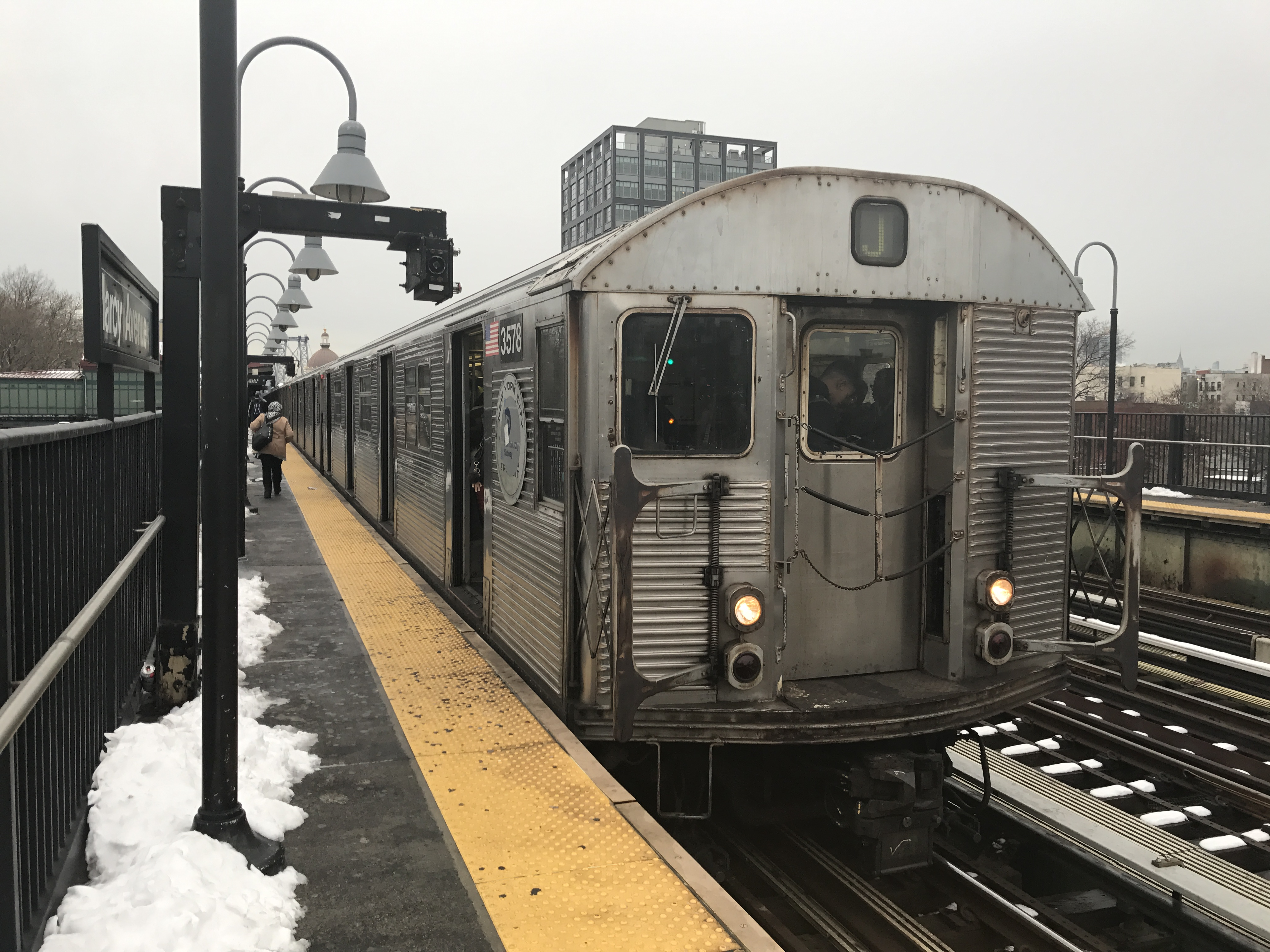 An R32 J train at Marcy Avenue taken with an iPhone 7.